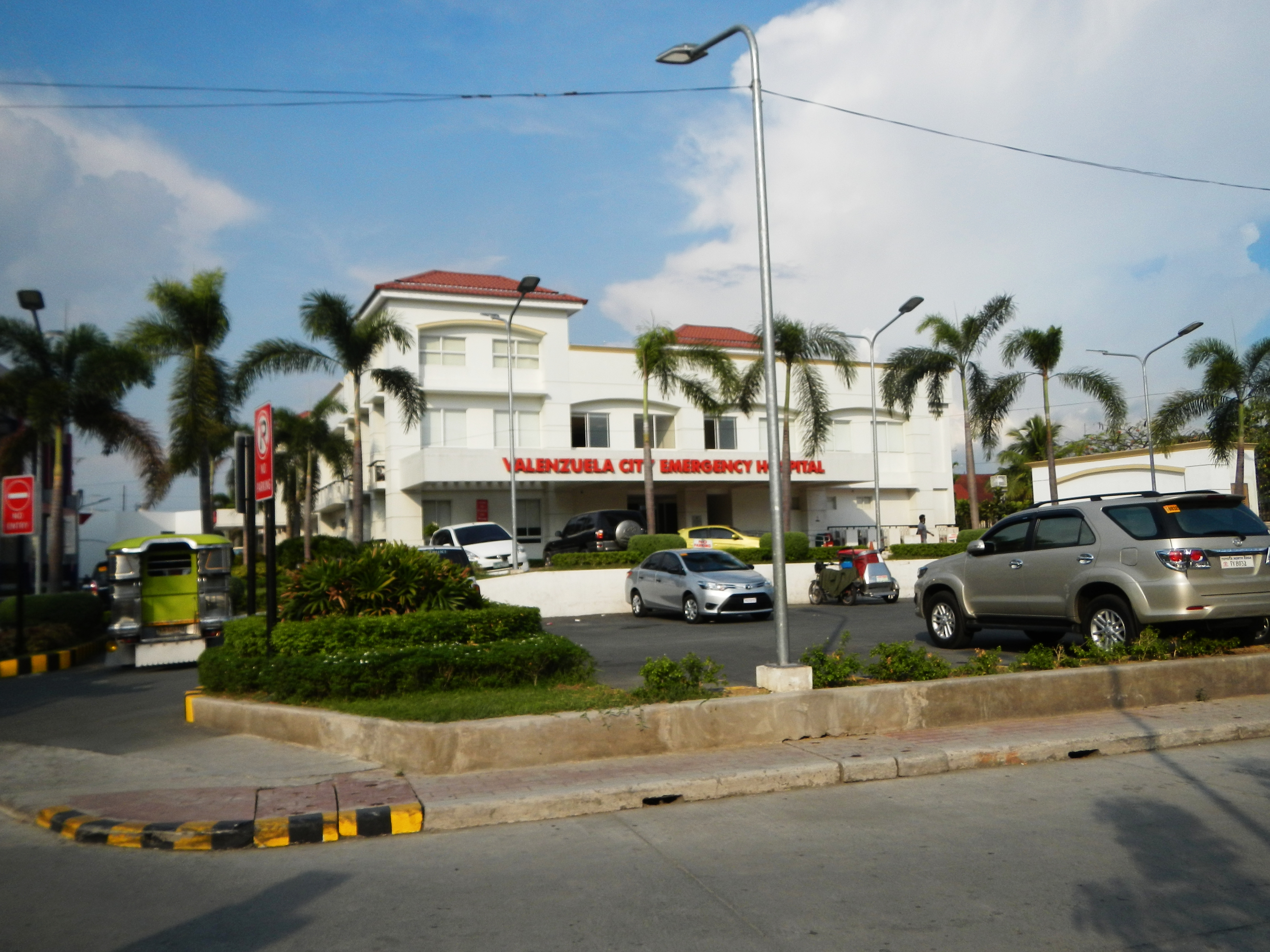 Valenzuela City Astrodome is beside or adjoins Valenzuela City Emergency Hospital which is in front of the Dalandanan National High School, 025 G. Lazaro Street, Dalandanan, in Barangay Dalandanan, Valenzuela City - Valenzuela, Philippines (List of barangays in Valenzuela - Valenzuela).